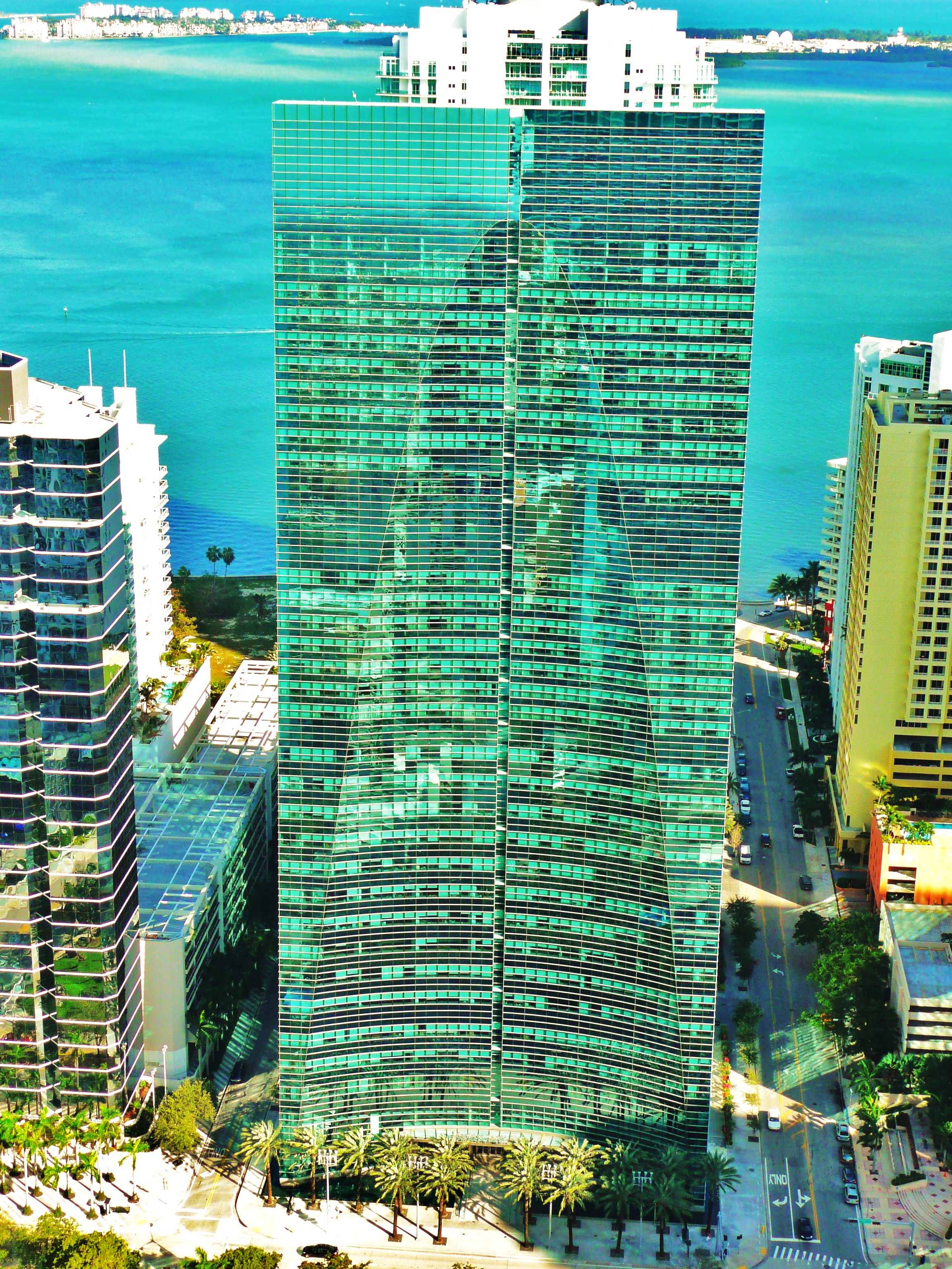 Digital photo taken by Marc Averette. Espirito Santo Plaza in Downtown Miami, Florida, United States.